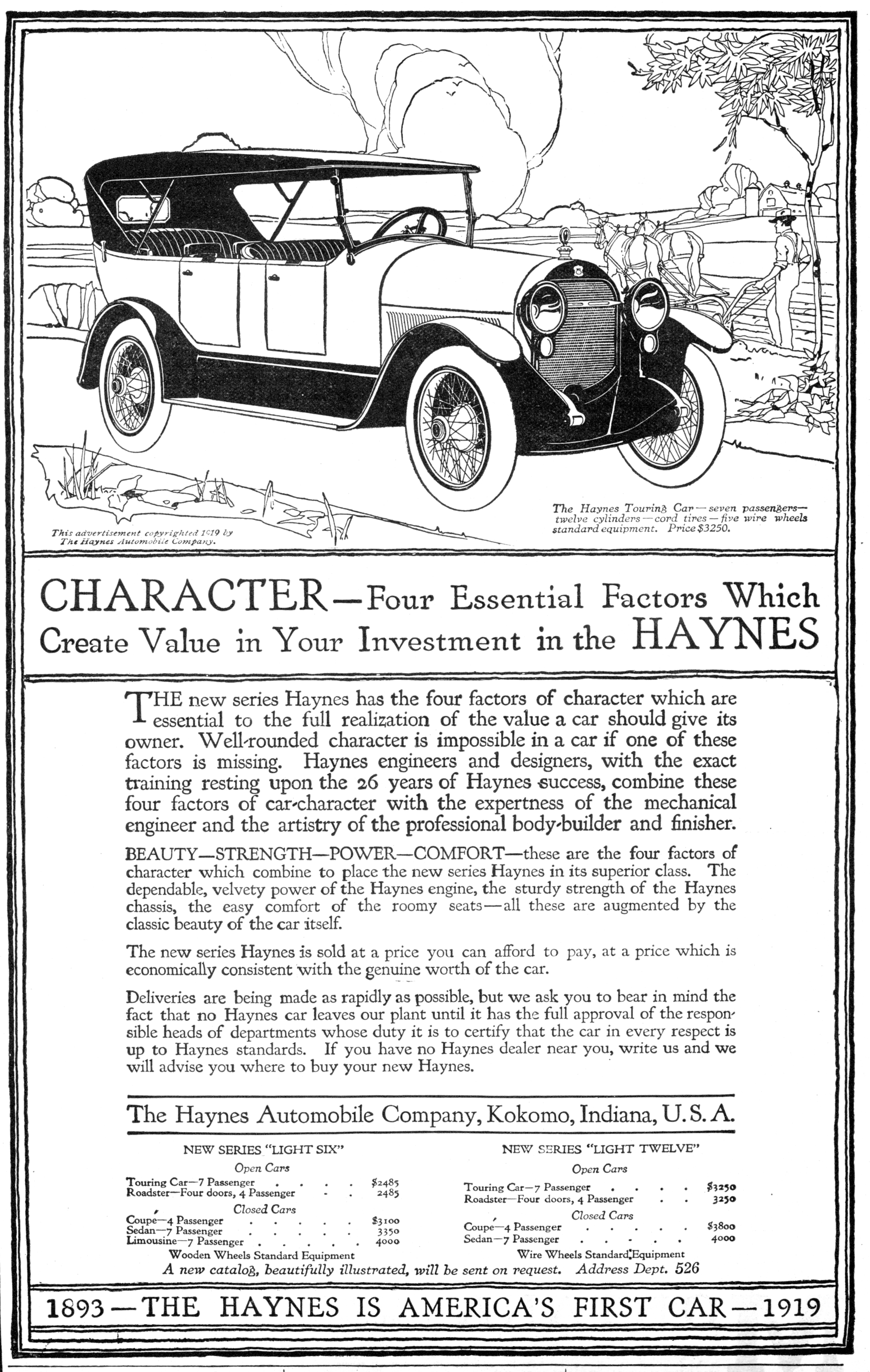 Haynes Automobile Company advertisement from a 1919 magazine